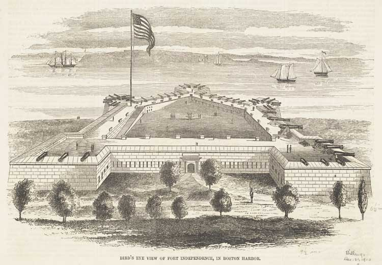 Fort Independence on Castle Island in Boston Harbor c. 1852